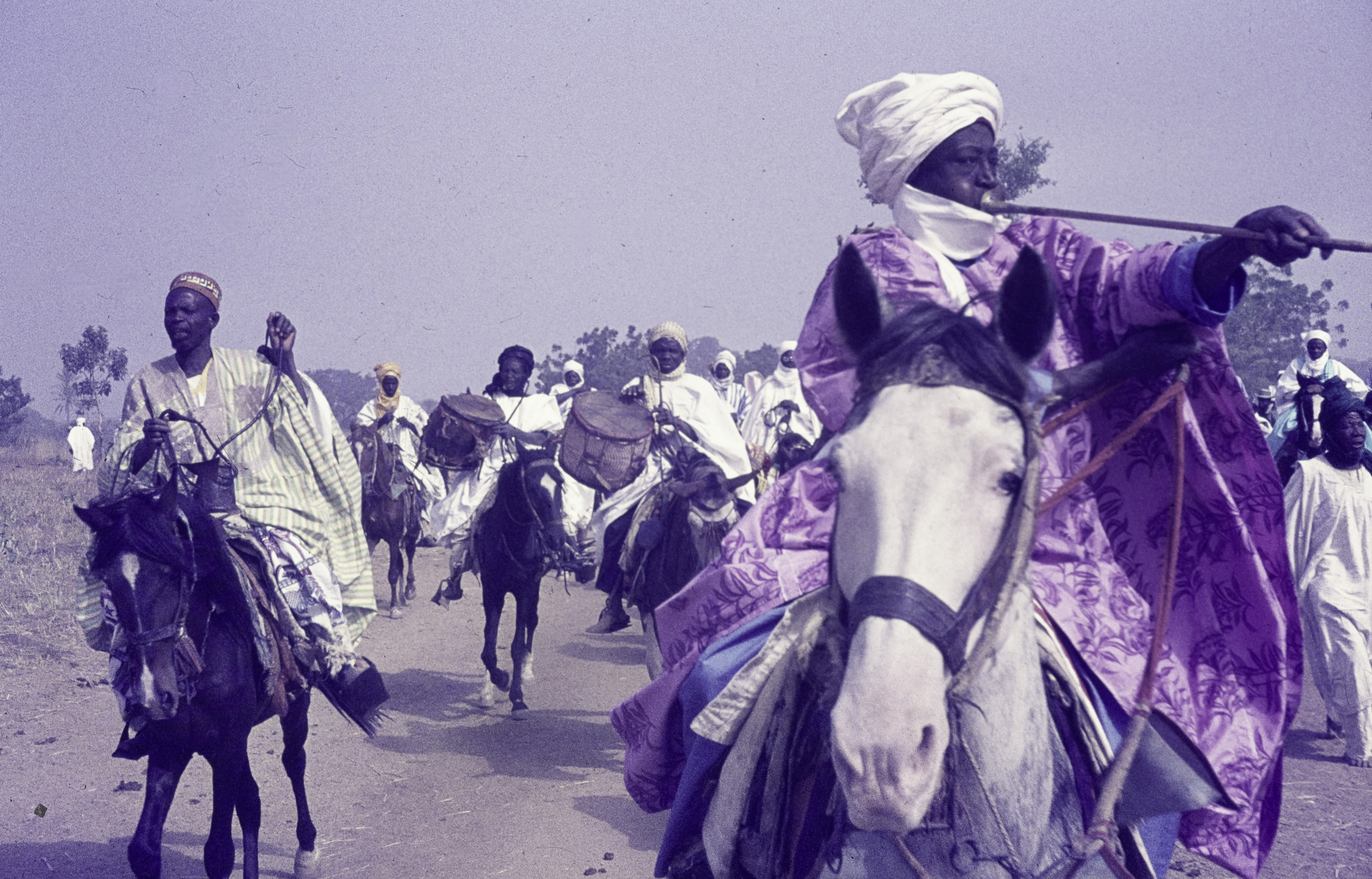 Sallah festivities in Bauchi. Rich horsemen in white and pink. Rider with a trumpet.